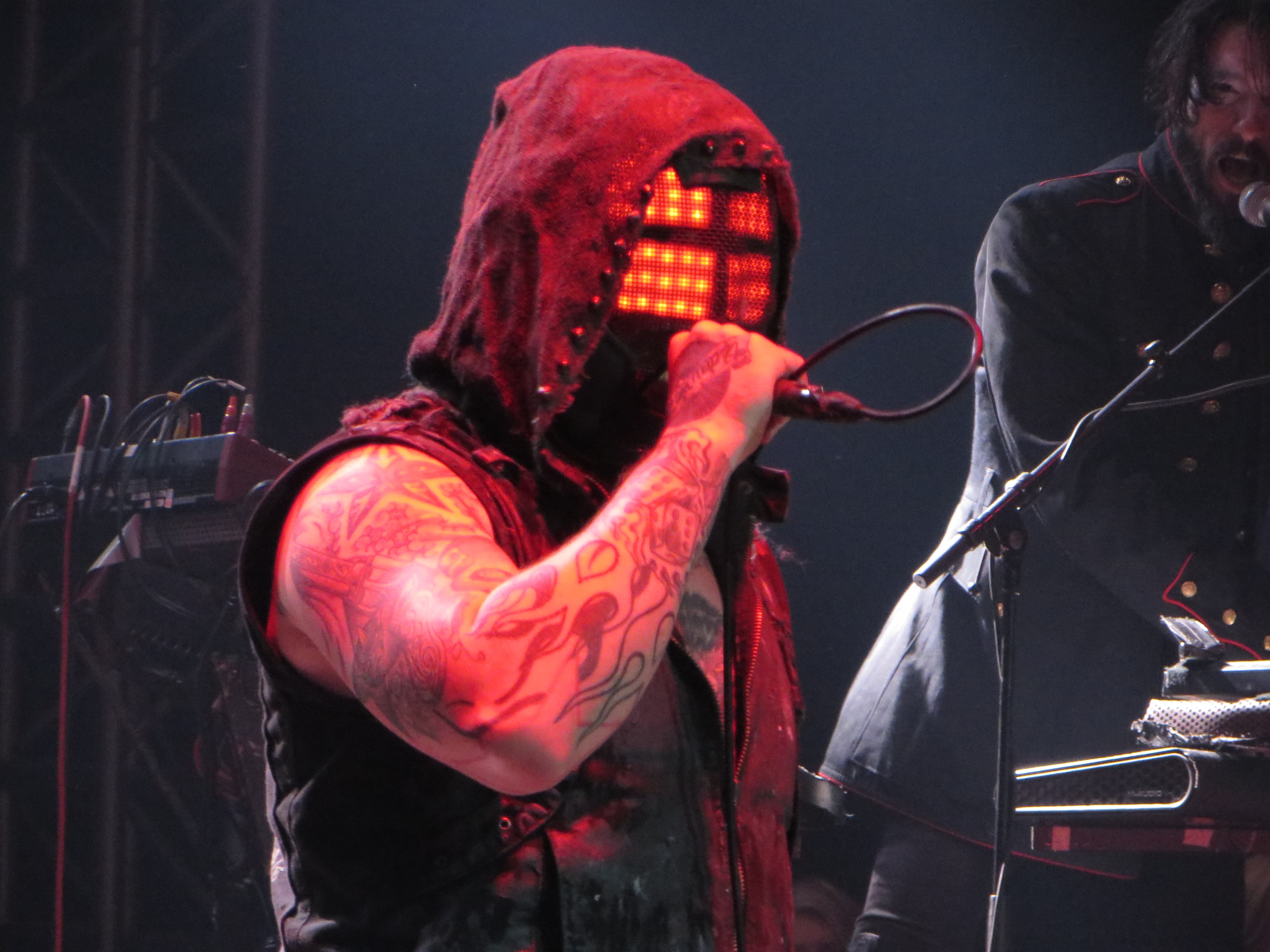 Combichrist singer Andy LaPlegua at Wacken Open Air 2015